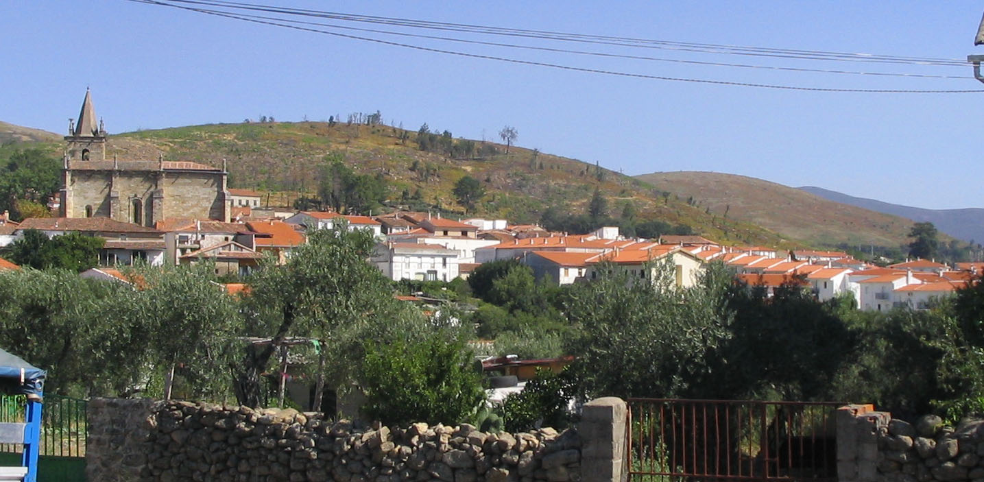 View of Hoyos (Cáceres), Spain